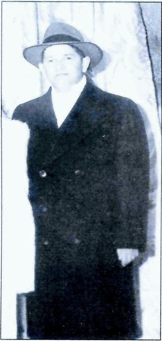 Rabbi Aryeh Leib Malin.